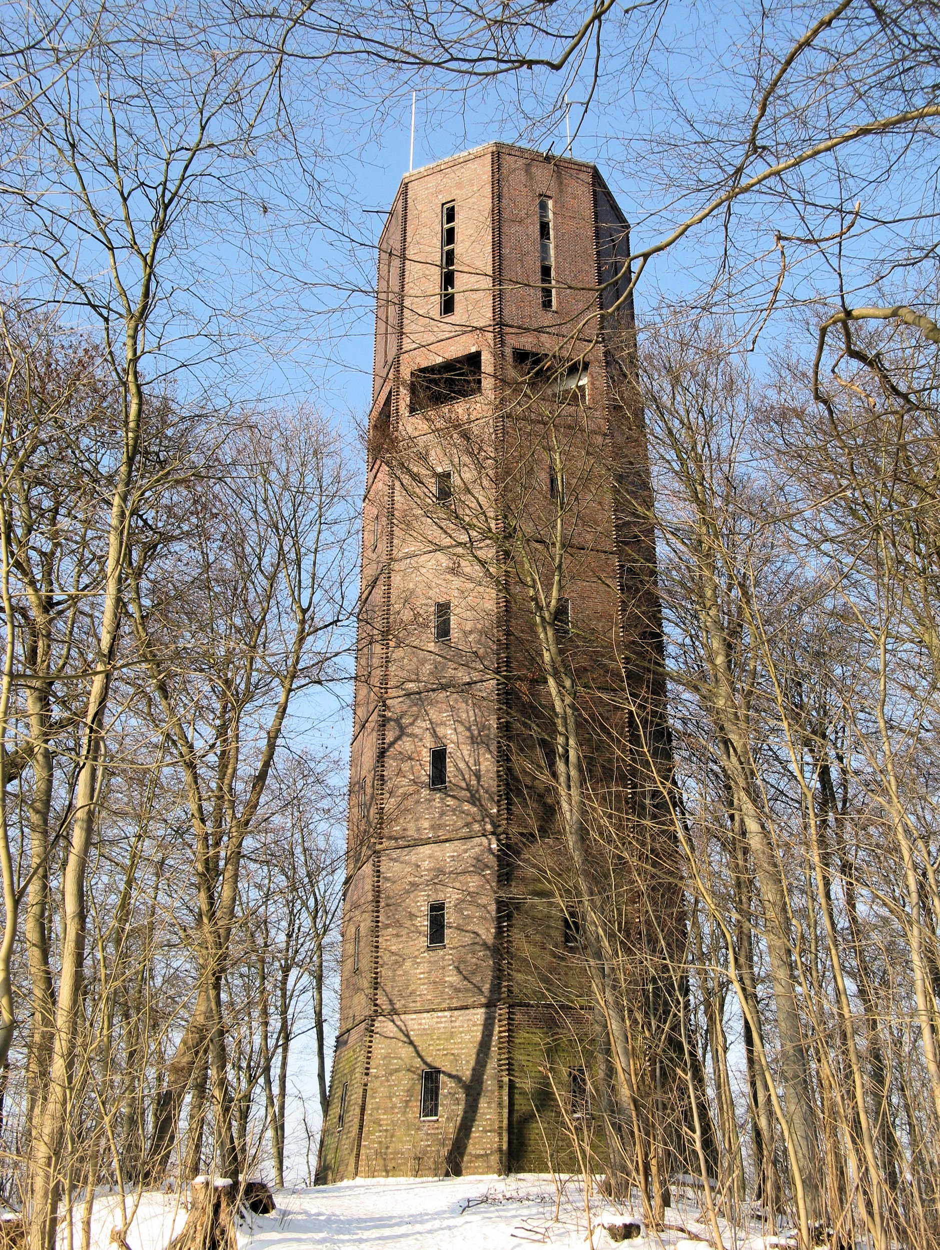 Water tower in Ratzeburg, district Herzogtum Lauenburg, Schleswig-Holstein, Germany